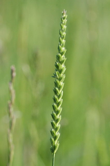 Picture taken in Commanster, Belgian High Ardennes . Species: Cynosurus cristatus